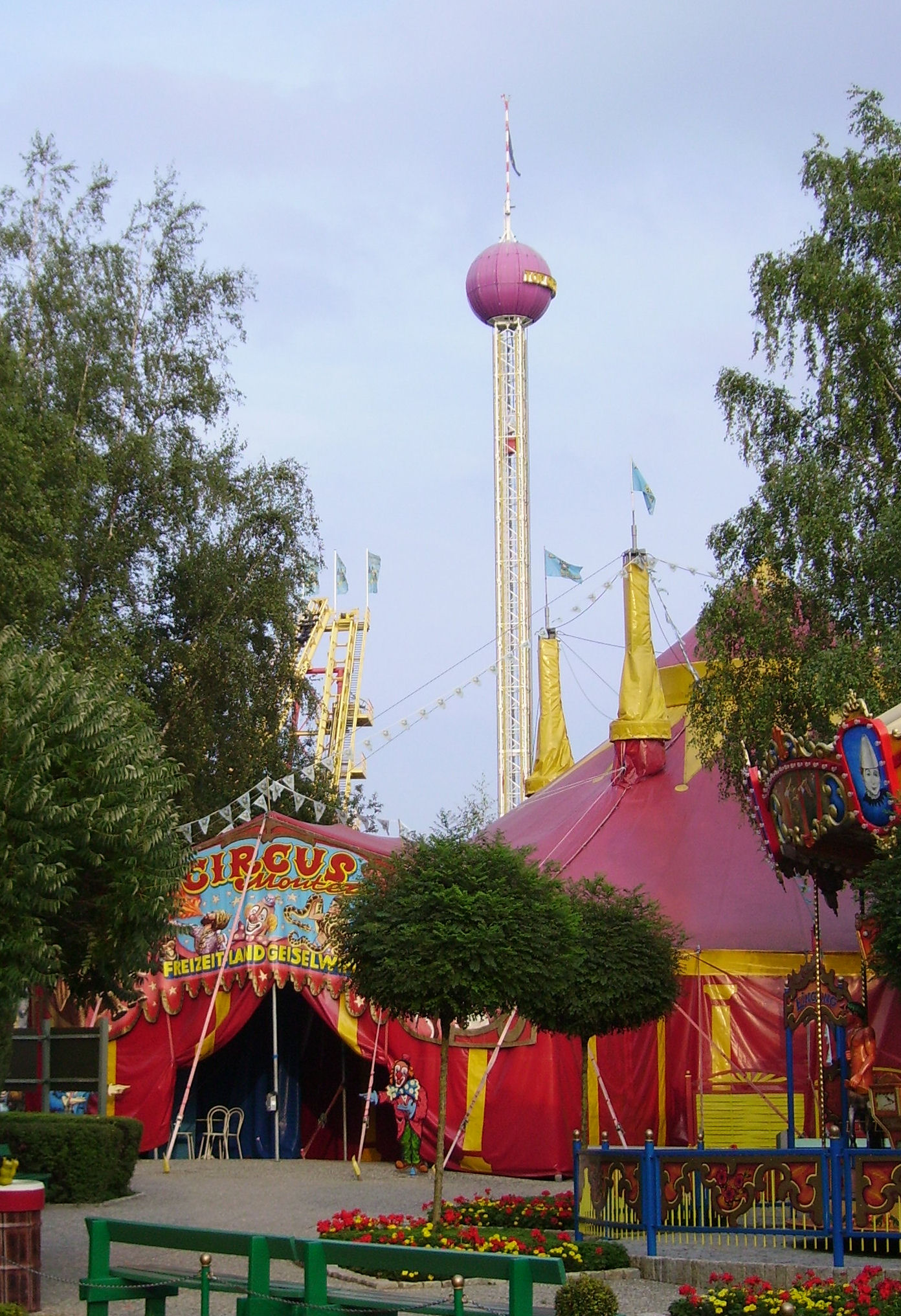 Freizeit-Land Geiselwind (Germany)